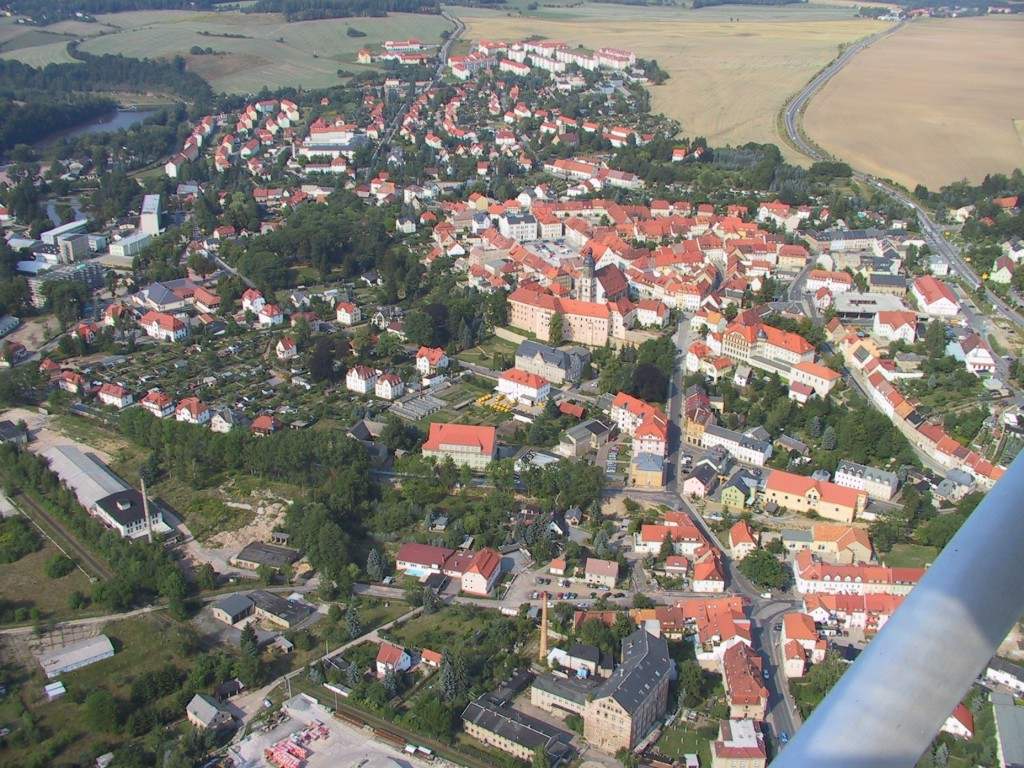 Aerial view of Dippoldiswalde, Saxony